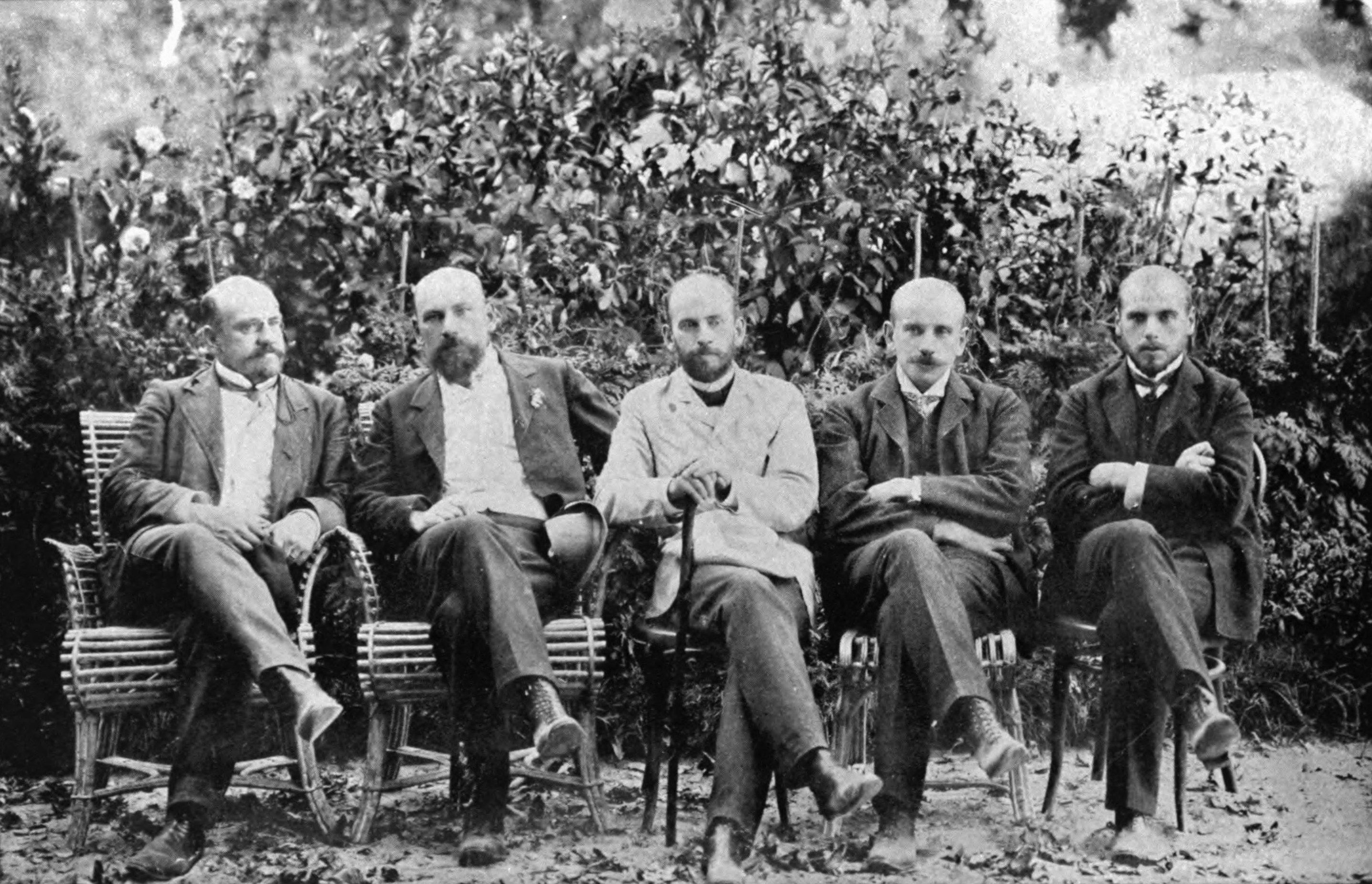 Leo Tolstoy's 5 sons. From left to right- Sergey, Ilya, Lev, Andrey and Mikhail.